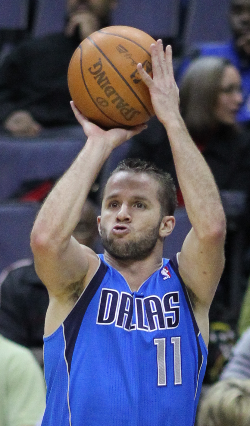 Wizards v/s Mavericks 02/26/11 J.J Barea